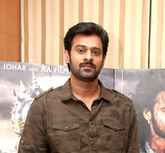 Actor Prabhas attending the second day of the media meet of the film Baahubali at Mumbai in June 2015.